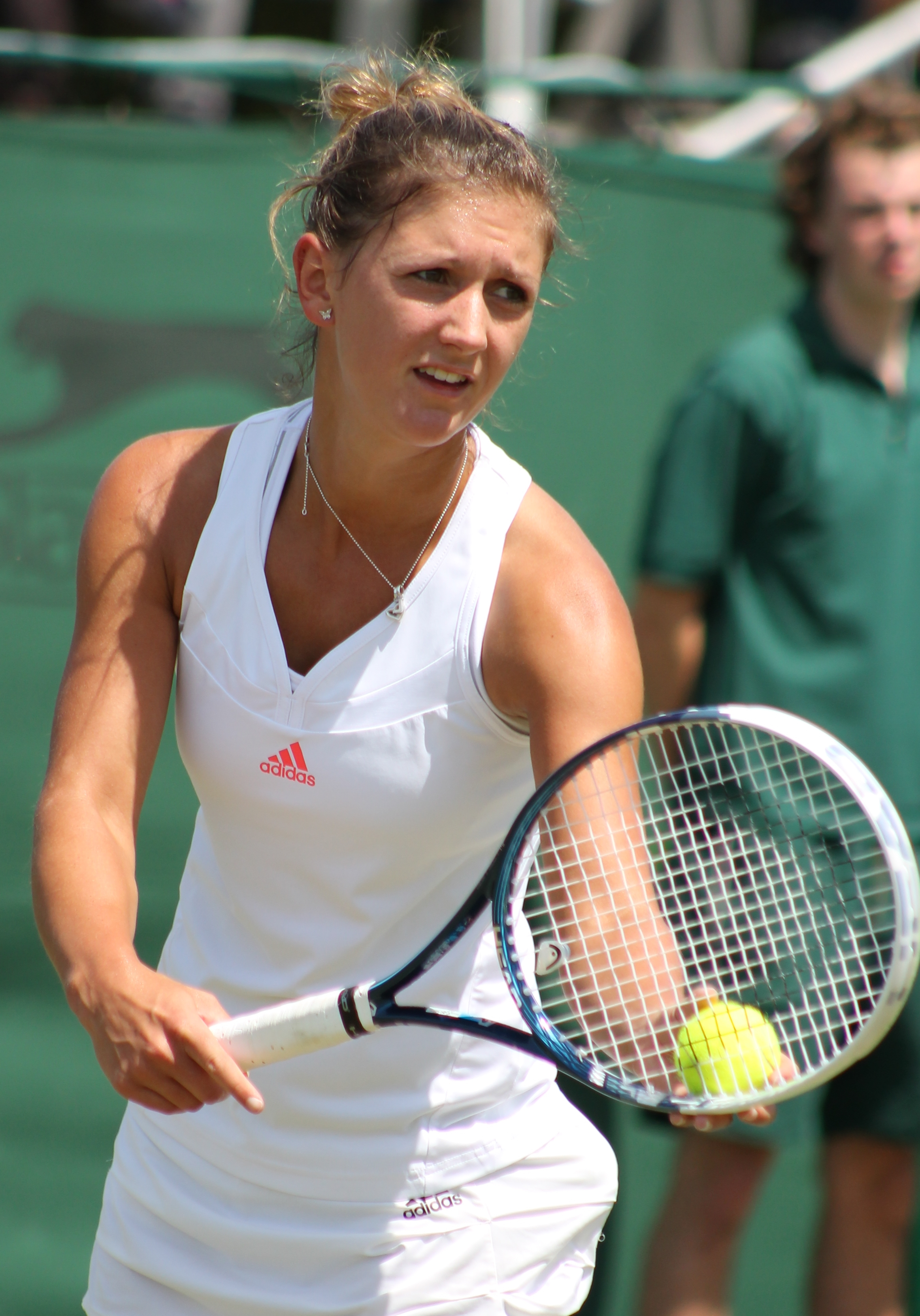 Windley WMQ14 (1)